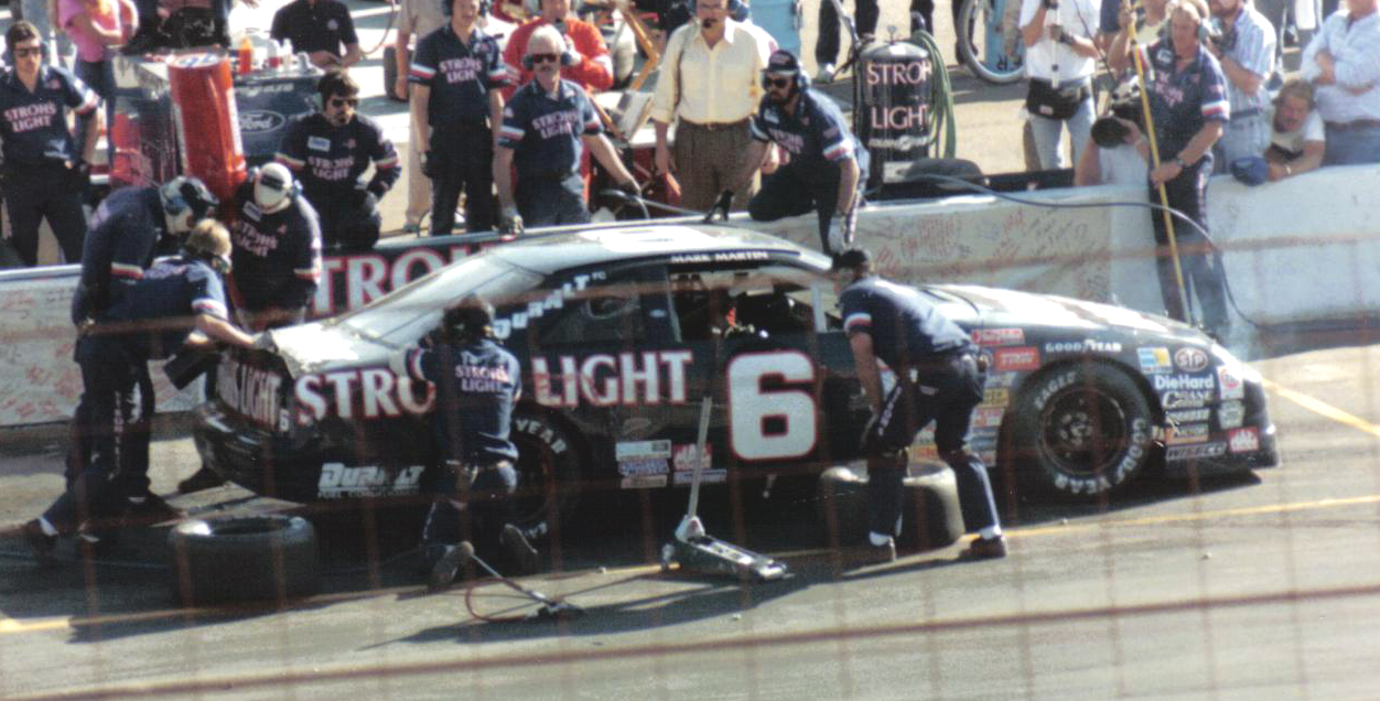 The Stroh's Light pitcrew services Mark Martin's #6 en route to a 3rd place finish at Phoenix.